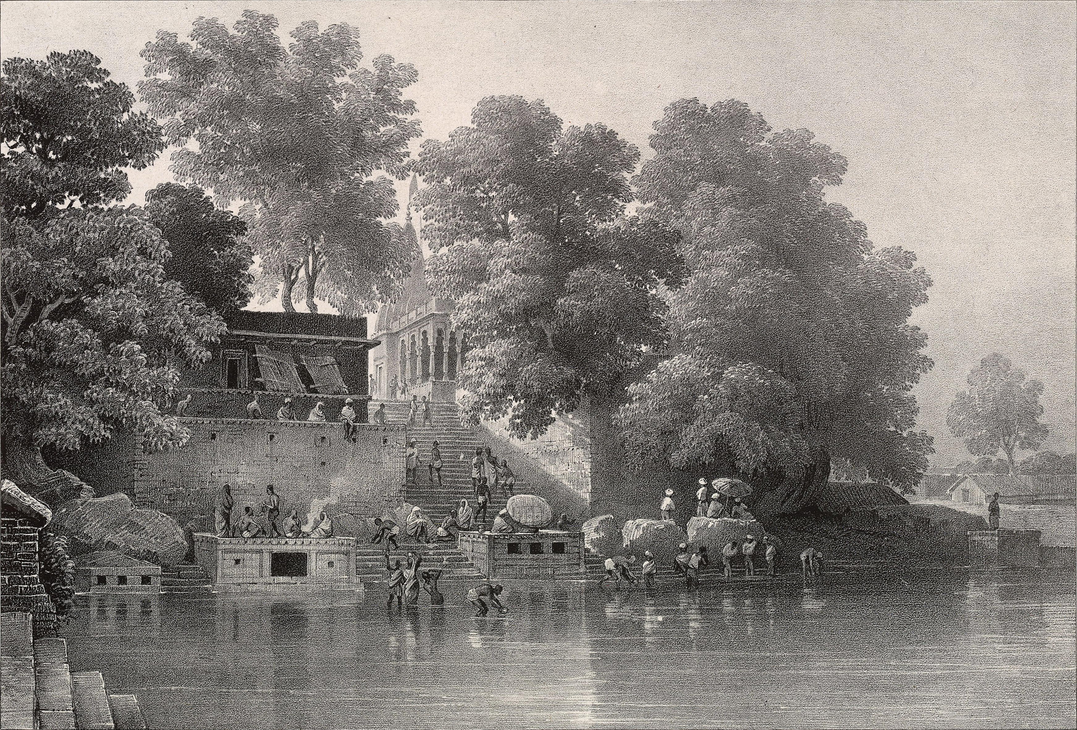 Kupuldhara Tulao, Benares, a small tank to the north-west of the town, and one of the numerous resting places in the Panch-Kosi Yatra. 1834 lithograph